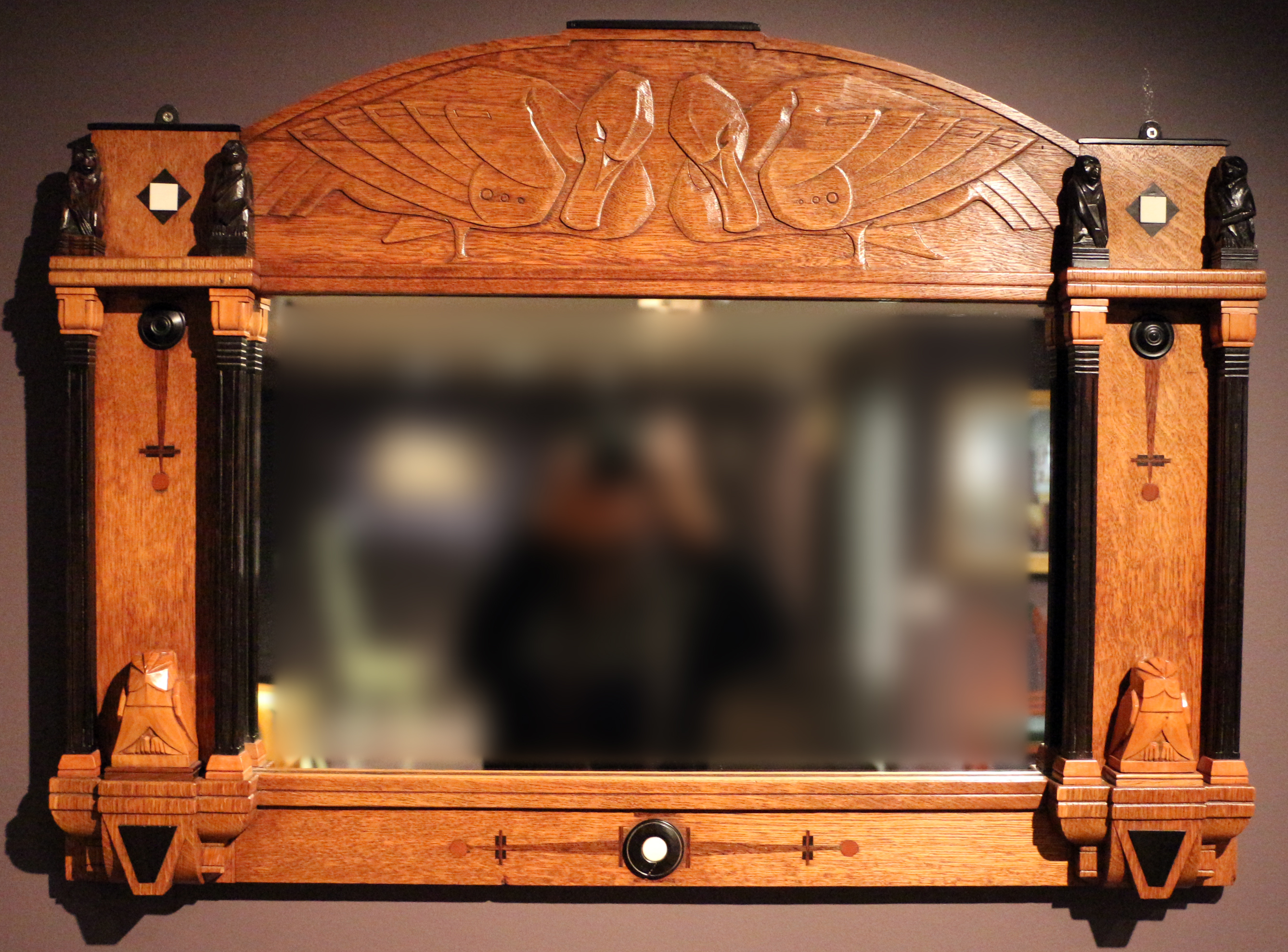 Decorative arts in the Musée d'Orsay